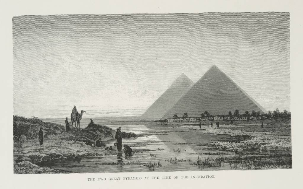 A flooded landscape, with two pyramids in the background.